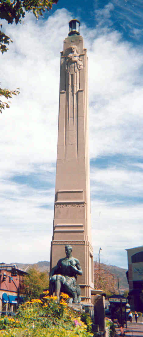 obelisk at 2100 S 1100 E SLC UT by JonMoore